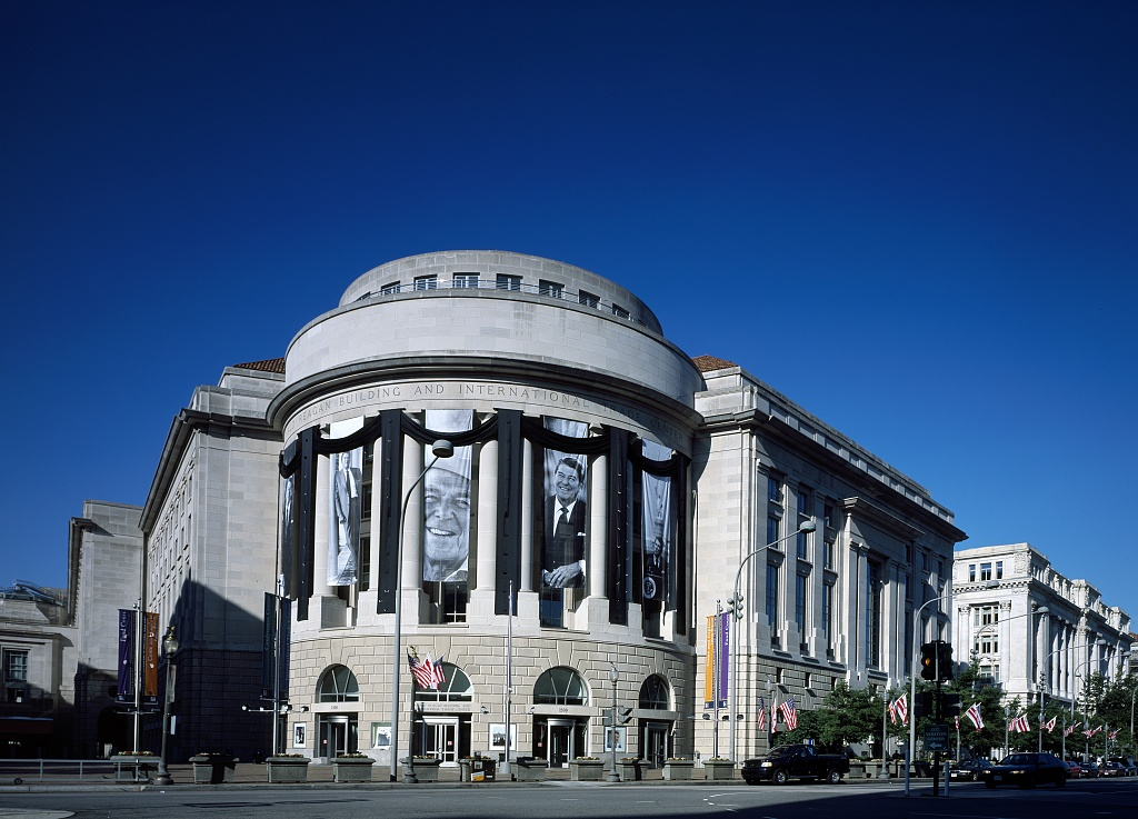 Ronald Reagan Building, Washington, D.C., draped in black and displaying the former president's photograph shortly after he died on June 5, 2004